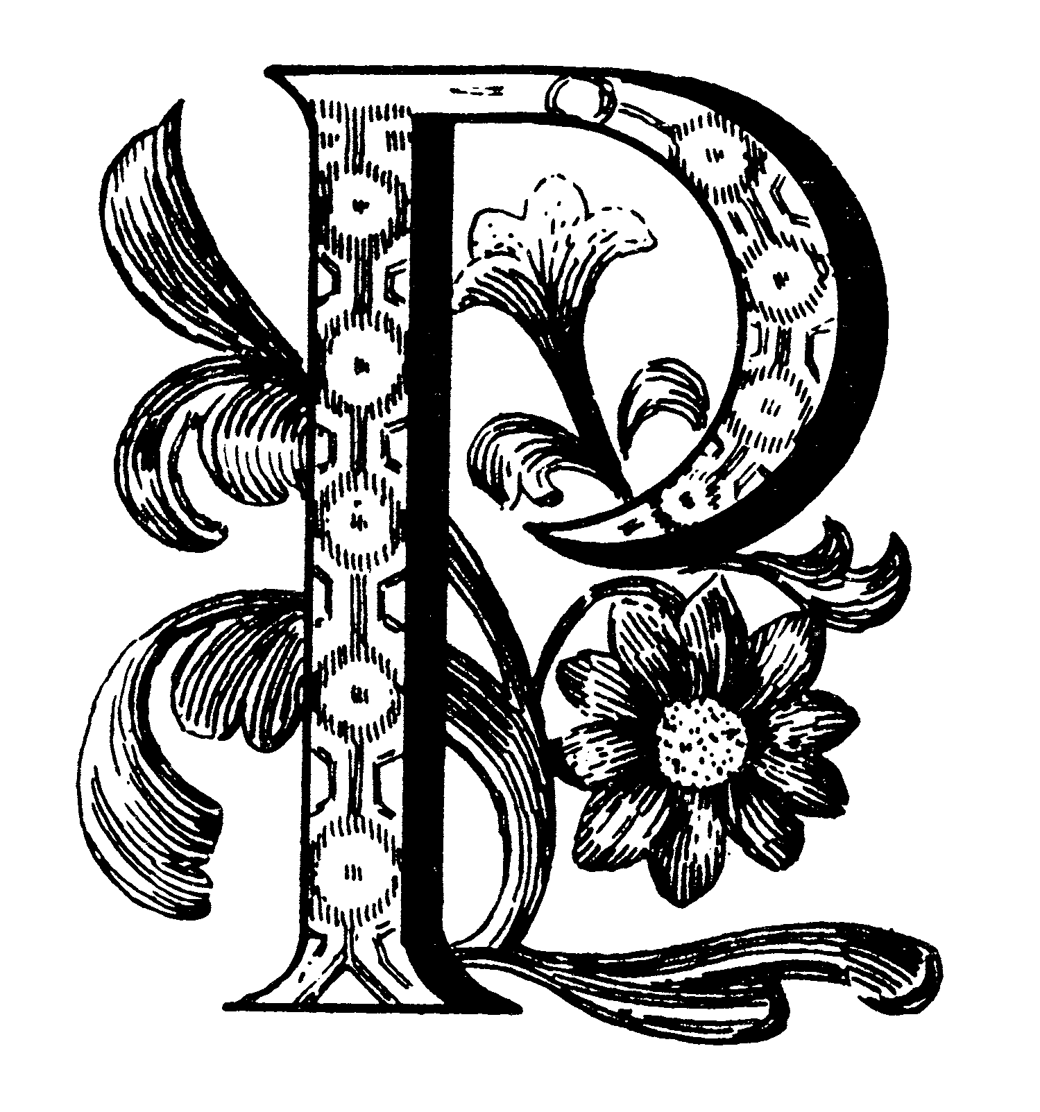 Initial, France, 17th century